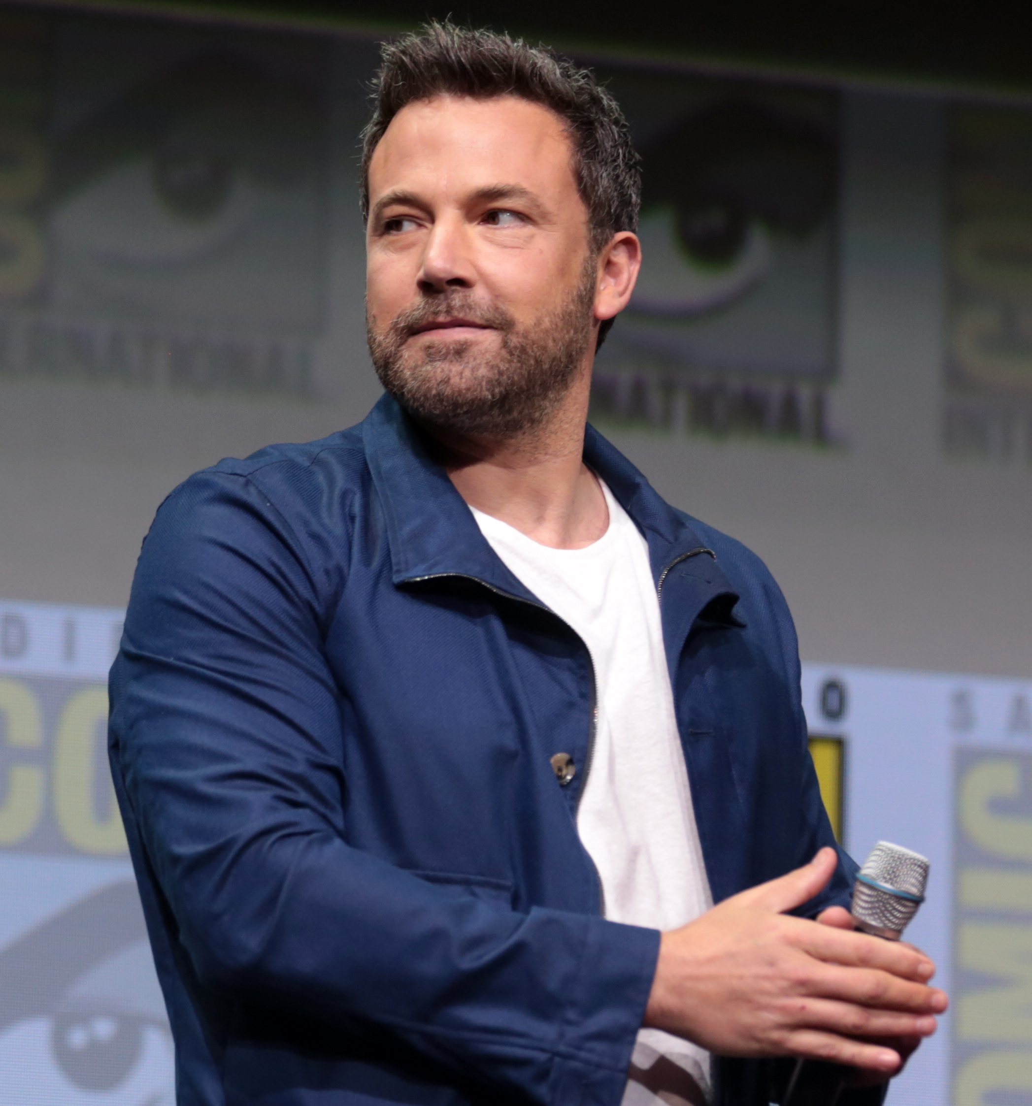 Ben Affleck and Ezra Miller speaking at the 2017 San Diego Comic Con International, for "Justice League", at the San Diego Convention Center in San Diego, California.